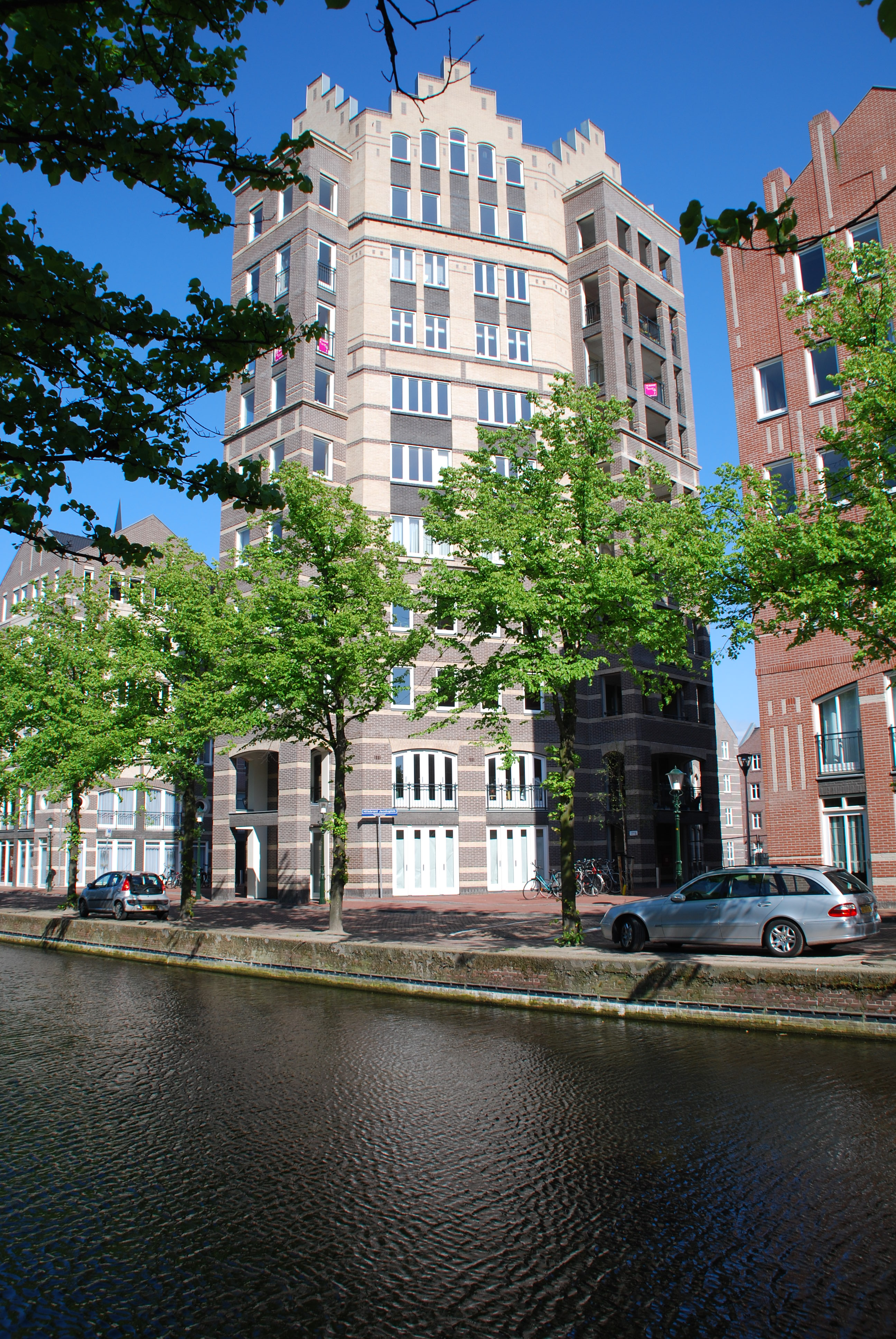 't Haegsch Hof, the Hague - the Netherlands